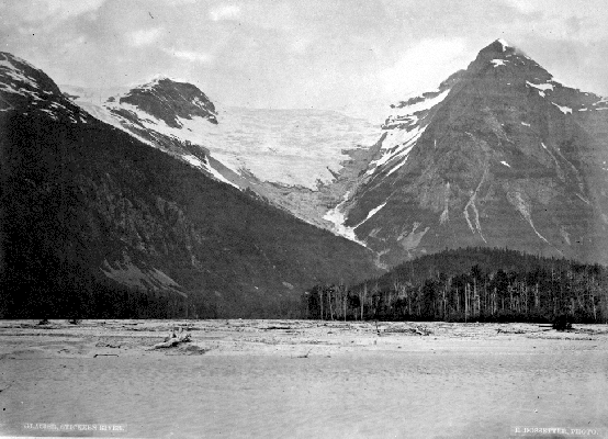 Photo taken 1881 Photograper Edward Dossetter BC Archives #B-03587 from the British Columbia Archives